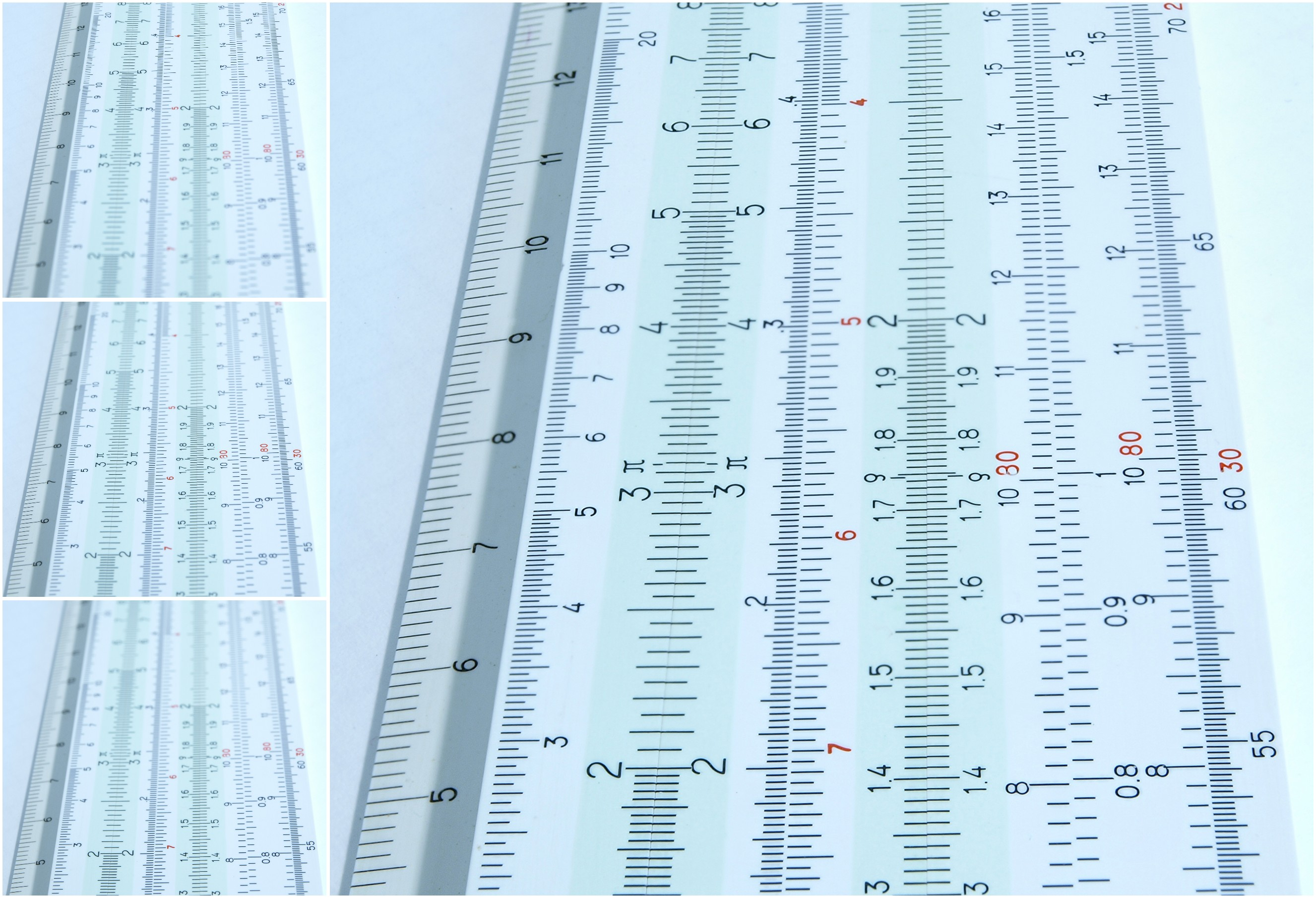 Focus stacking using CombineZM. The three images on the left side are sharp in the back-, middle- and foreground. By using focus stacking you get the big image on the right side.